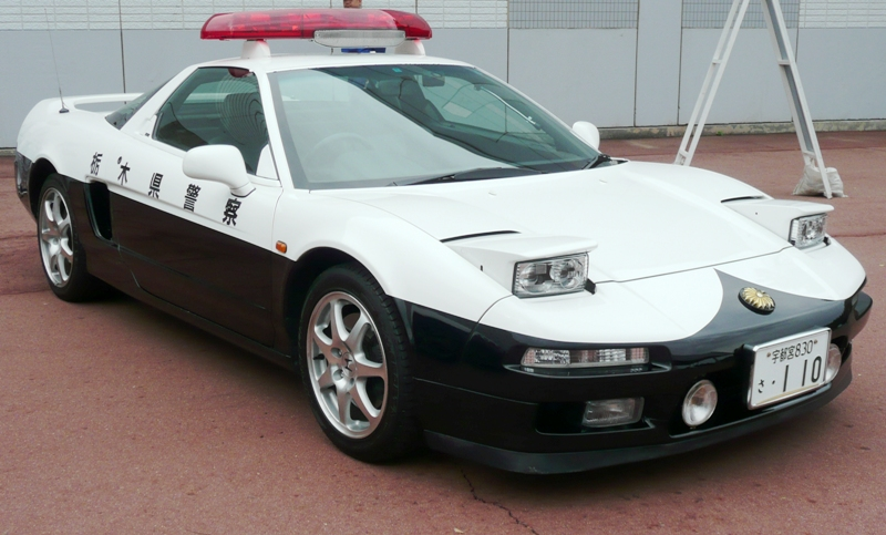 Honda NSX Police Car